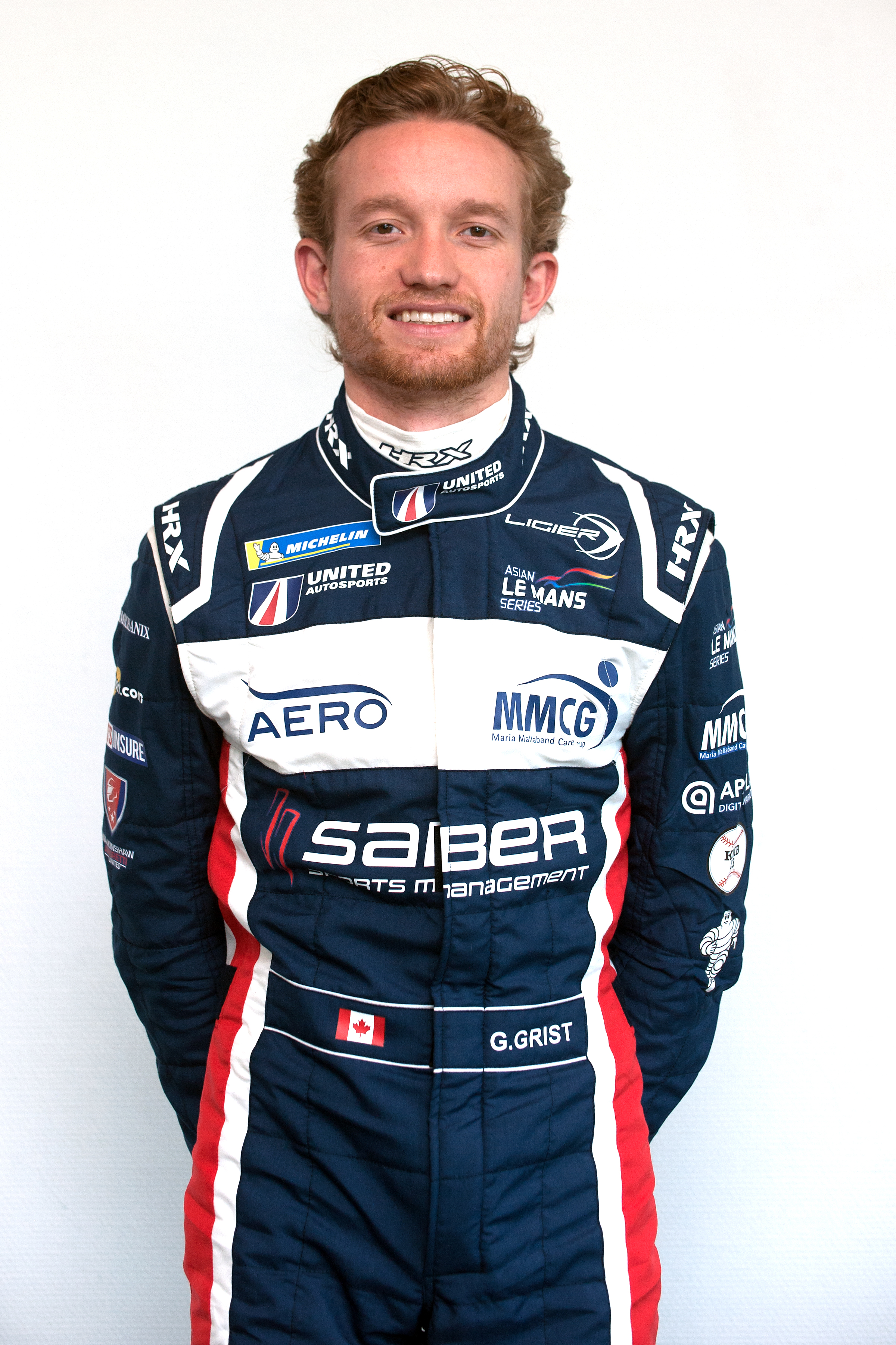 Garett Grist at the 2018 4 Hours of Shanghai